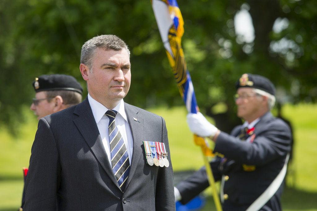 Brian Macdonald in Oromocto during the LAV unveiling